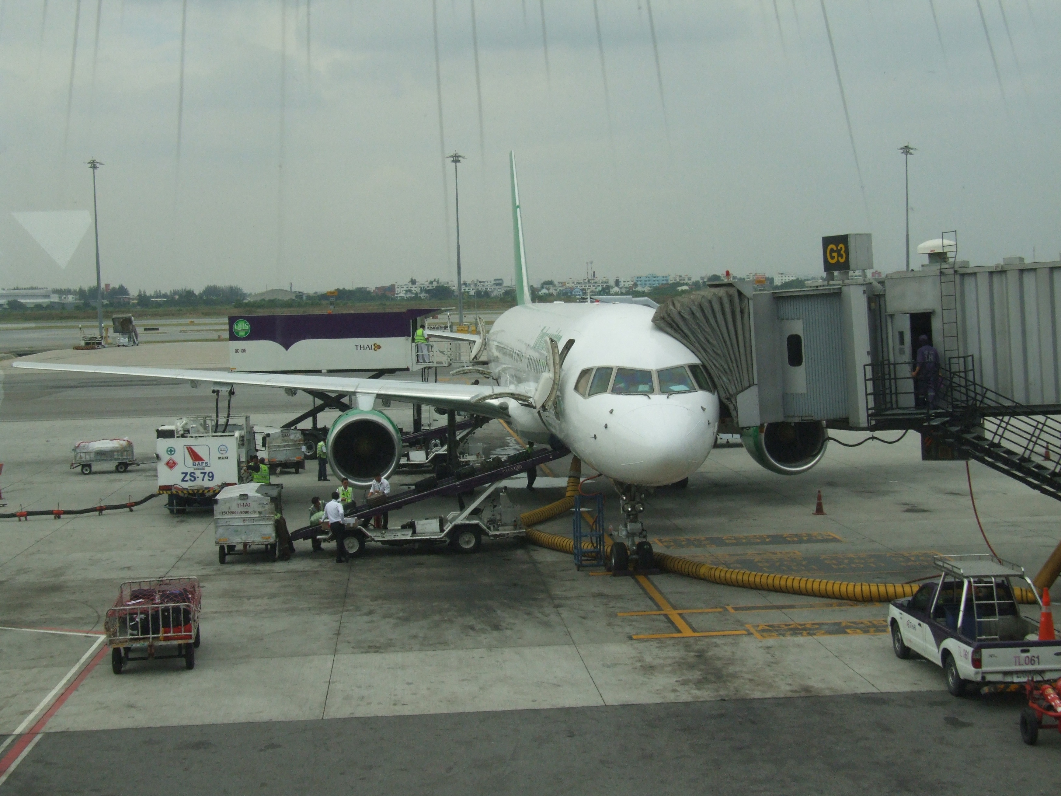 Боинг 757-200 EZ-A010 Туркменских авиалиний в аэропорту Суварнабуми, Бангкок.